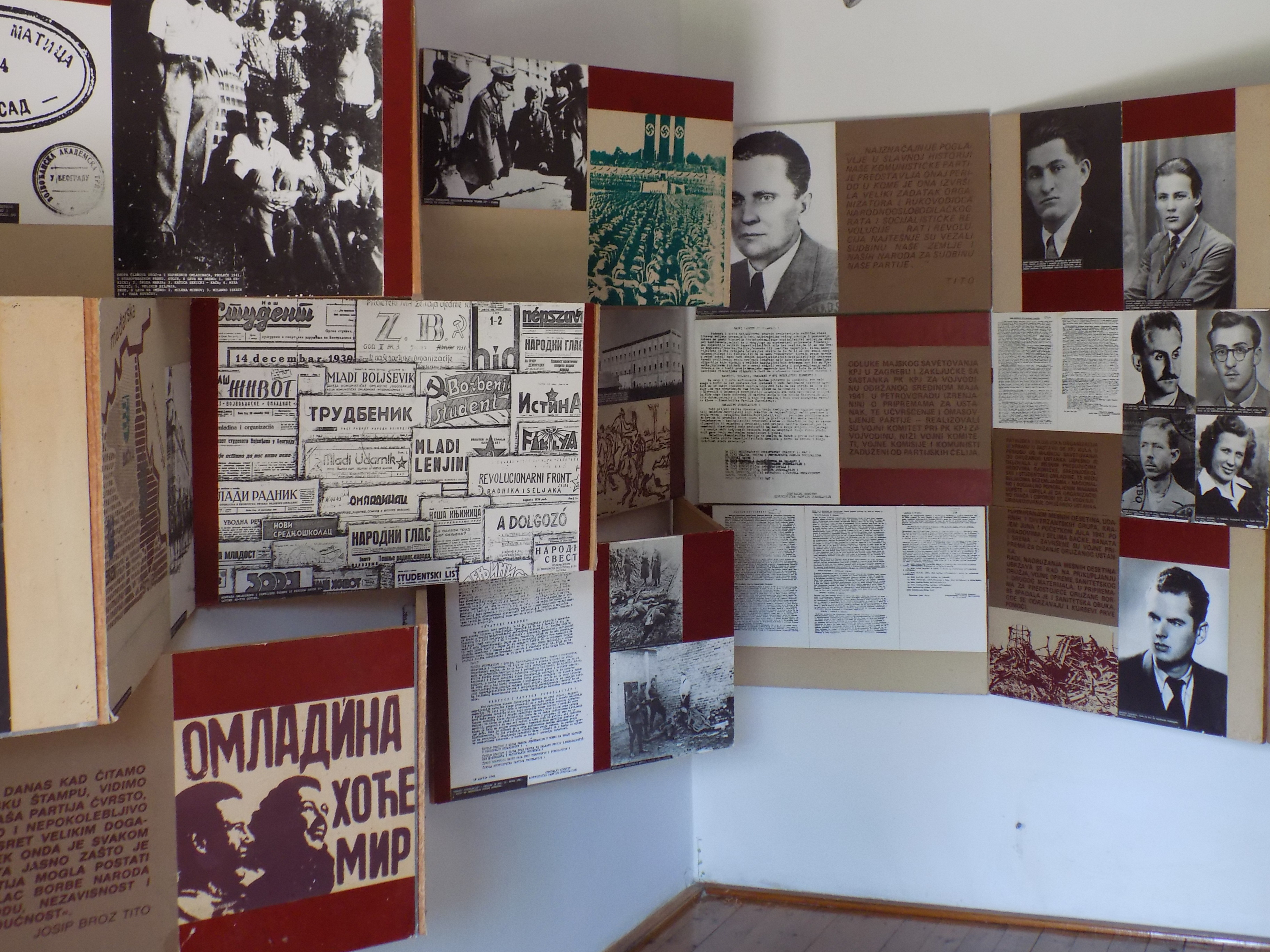 A detail from a permanent exhibition at the Museum of the Revolution in Vrbas